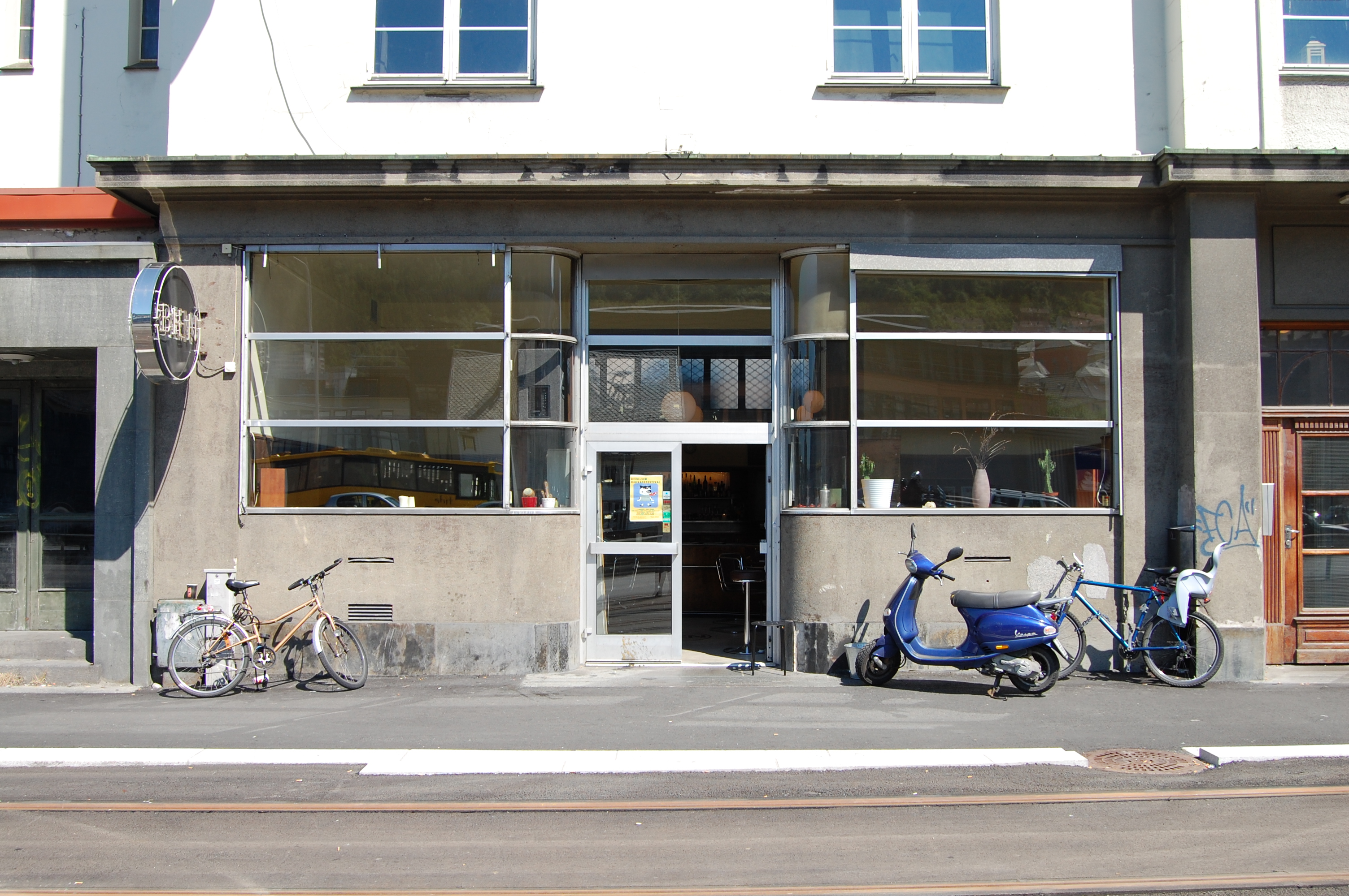 Bien bar, Bergen, Norway